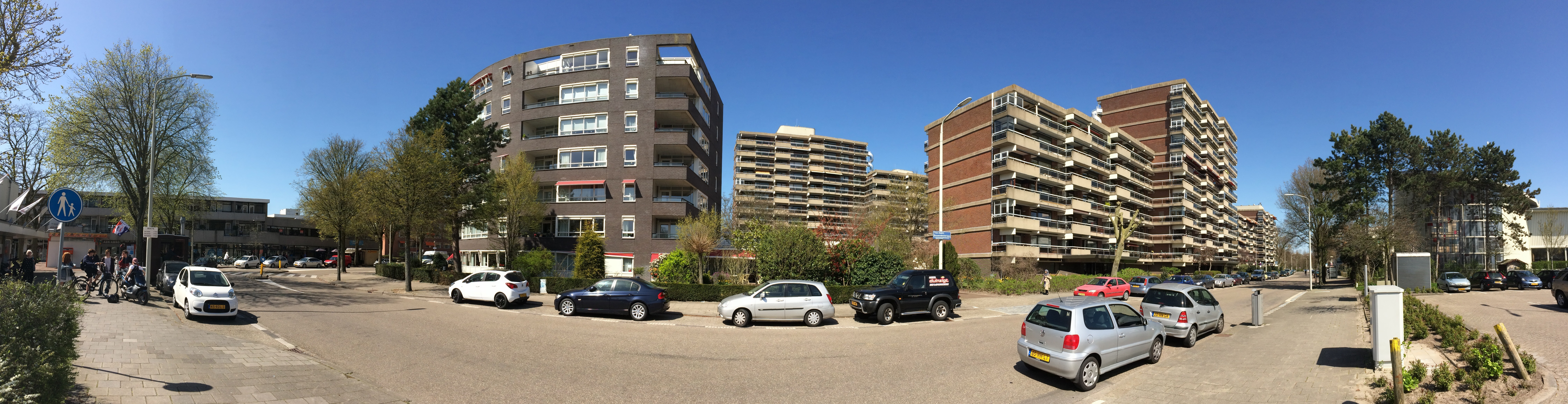 The Theo Mann-Bouwmeesterlaan (Theo Mann-Bouwmeester Lane) in The Hague, Netherlands.